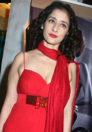 Manisha Koirala At The Launch Of Shahid Aamir's New Collection